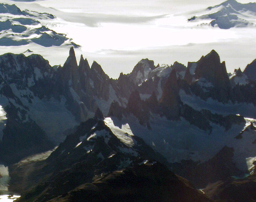 Cerro Torre and Fitz Roy